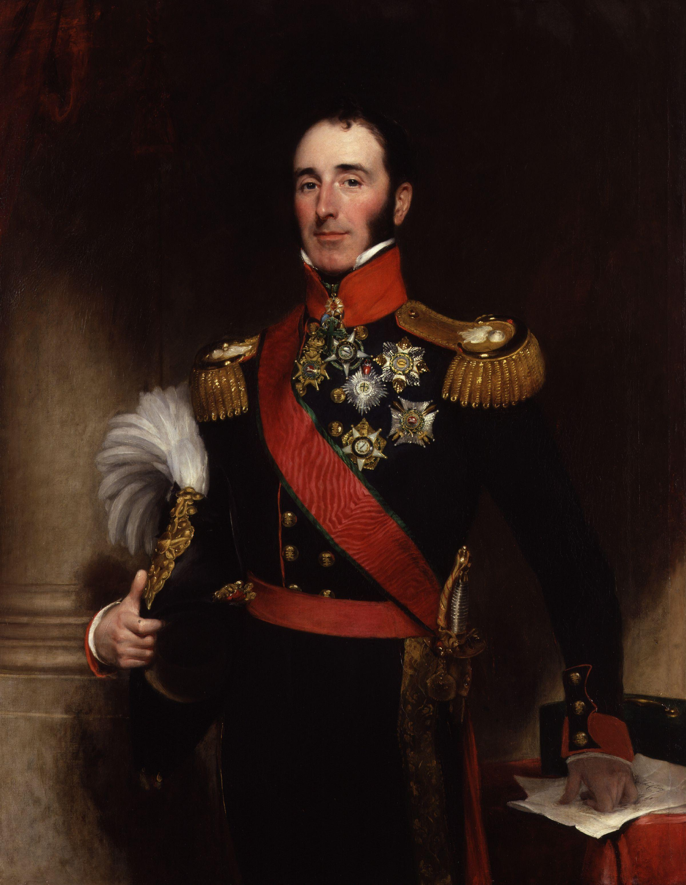 All images in this batch have been confirmed as author died before 1939 according to the official death date listed by the NPG.